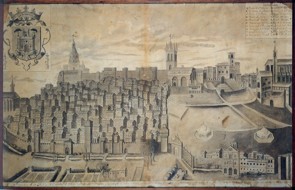 Panoramic view of the city of Vitoria-Gasteiz in the 17th century (the painting is a copy of an older painting)